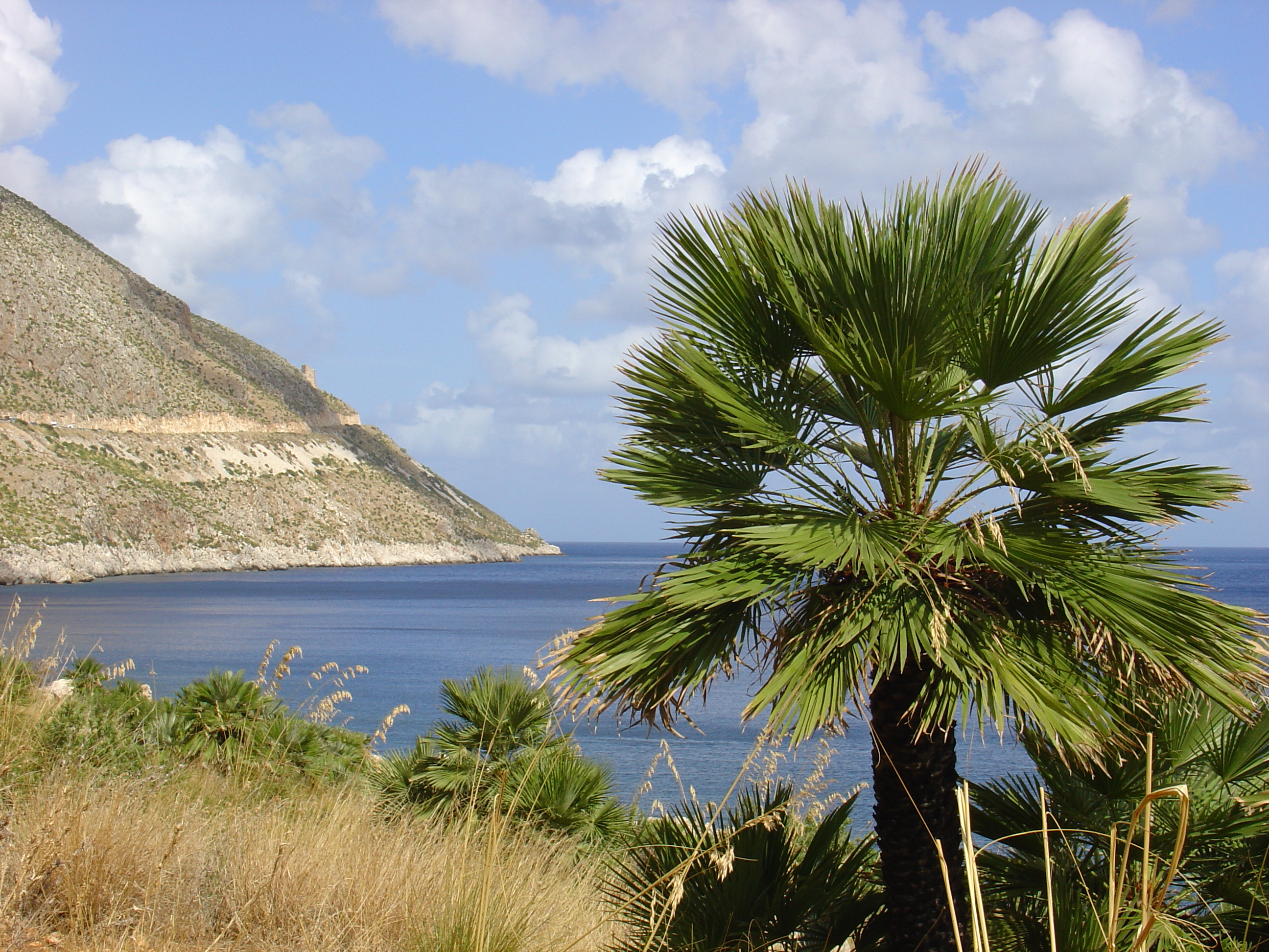 Zingaro-Naturpark (Sizilien)/Zingaro Natural Reserve (Sicily)